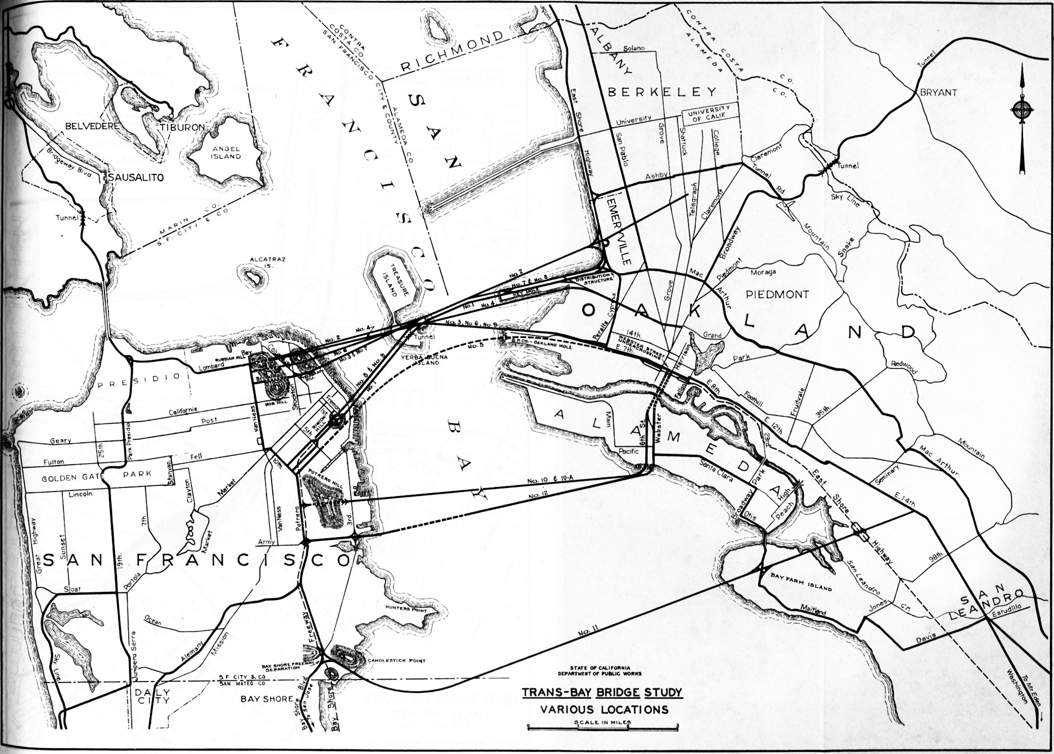 Map showing proposed second Bay Crossings, as detailed in the 1947 report.